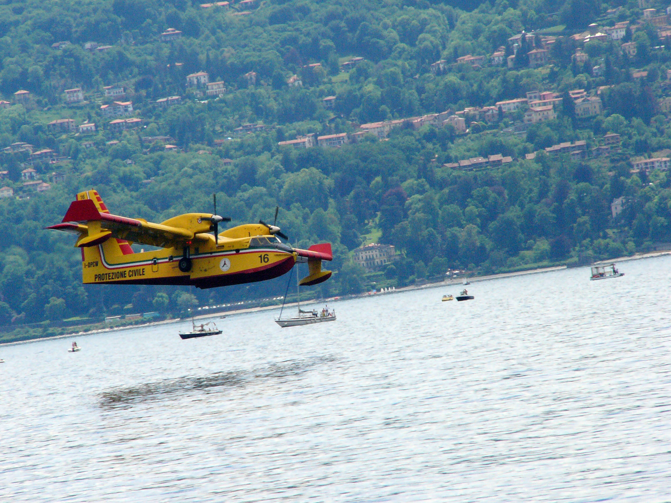 Canadair CL-415 demonstration, at Verbania (Ali sul lago maggiore, Verbania, Italy)